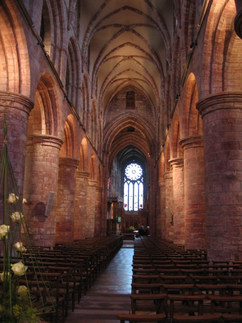 Kirkwall, inside the Cathedral of St Magnus Building of the cathedral begun in 1137. The masonry uses red sandstone quarried near Kirkwall and yellow sandstone from the island of Eday, often in alternating courses or in a chequerboard pattern to give a polychrome effect.